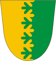 Coat of arms of Laekvere vald, Estonia